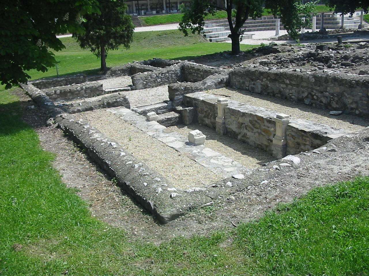 Mithraeum of Victorinus, Aquincum. From the west. Photo: A. Pegler.